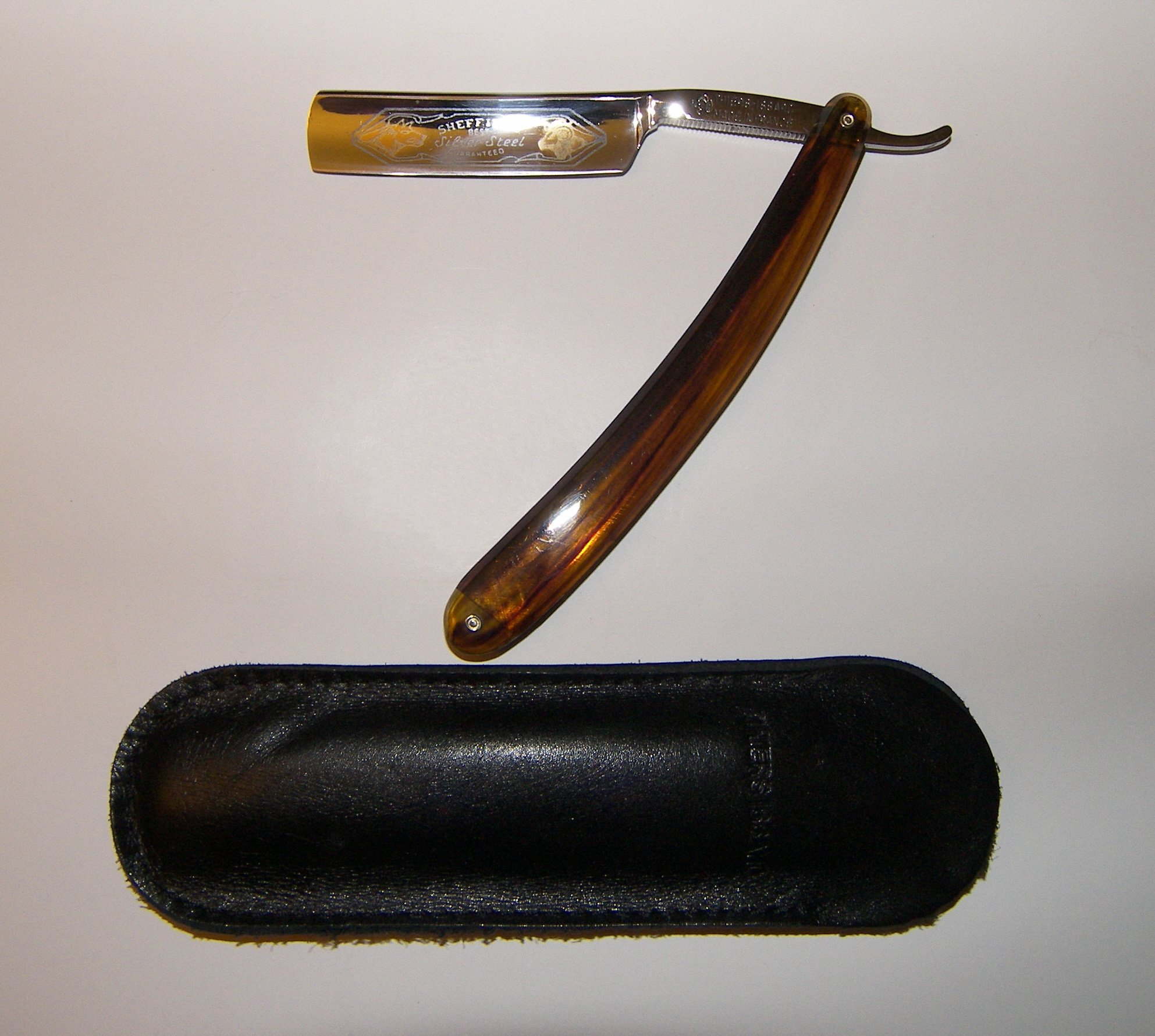 Razor made by Thiers Issard.